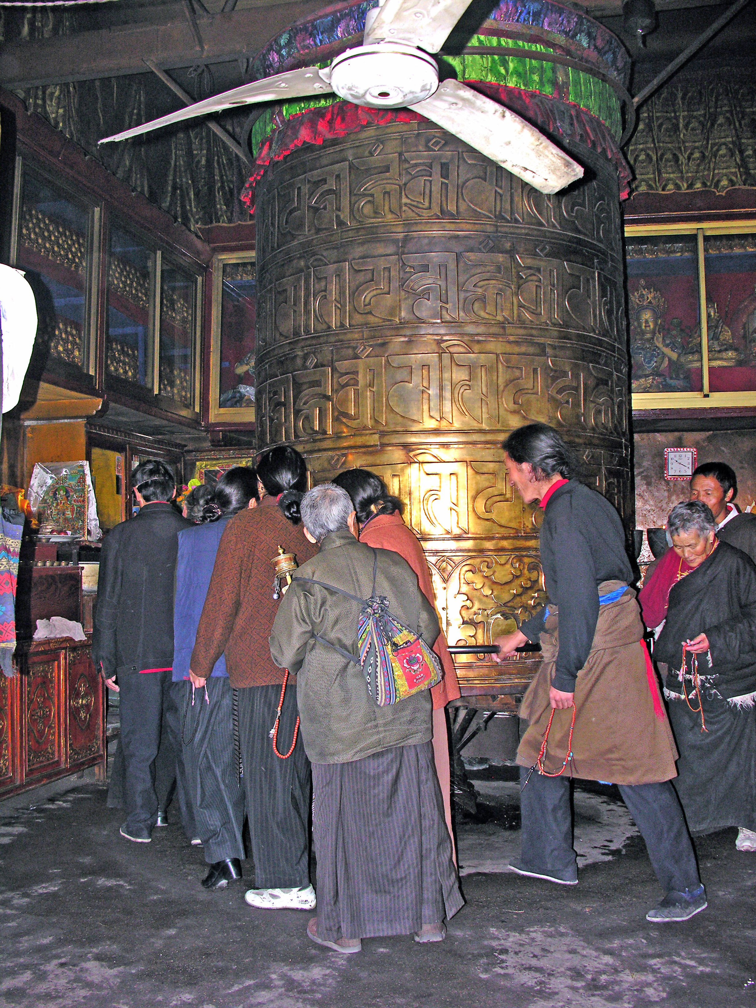 This is a very large prayer wheel. Lhasa, Tibet Notice in the hands of the people are their prayer beads. Tibetan Prayer wheels (Mani) are for spreading spiritual blessings and well being. Rolls of thin paper, imprinted with many, copies of the mantra Om Mani Padme Hum, are inside the wheel, and spun clockwise.